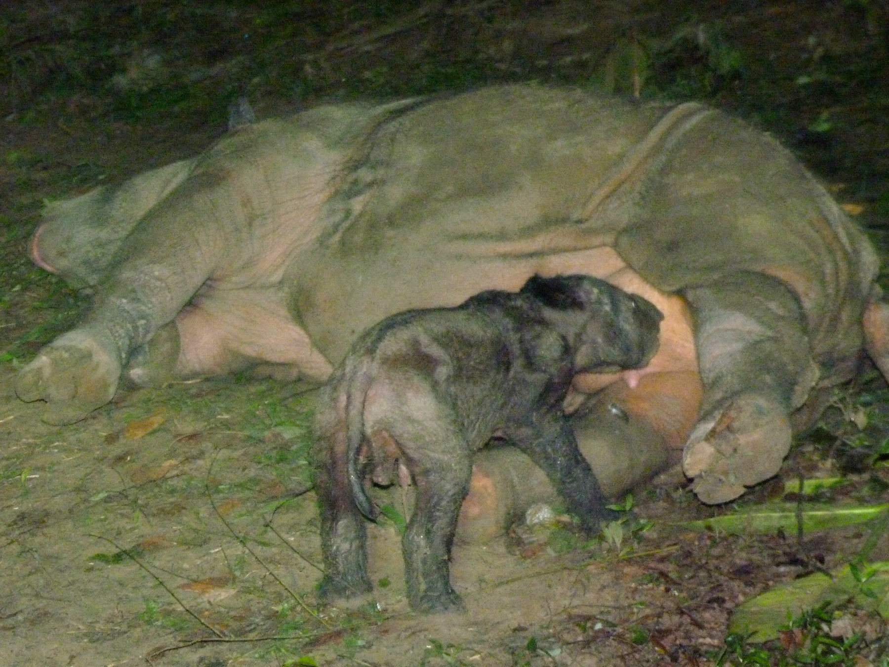 Calf nursing right away photo by BBryant low res